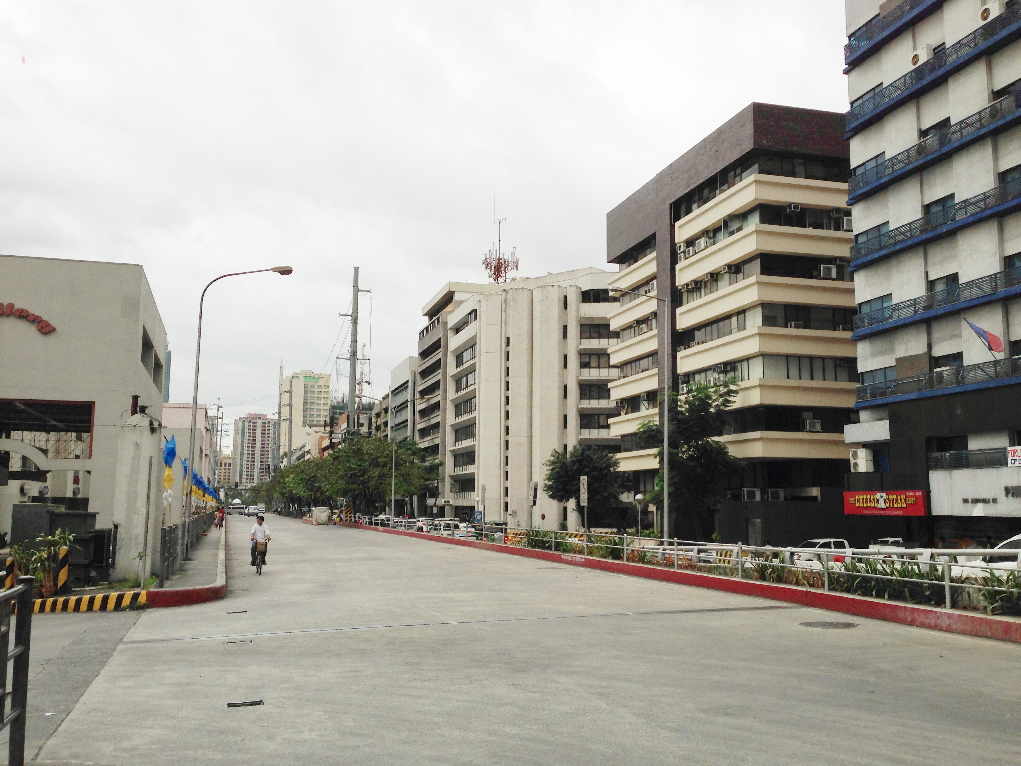 Amorsolo Street, Legaspi Village, Makati CBD, Manila, Philippines